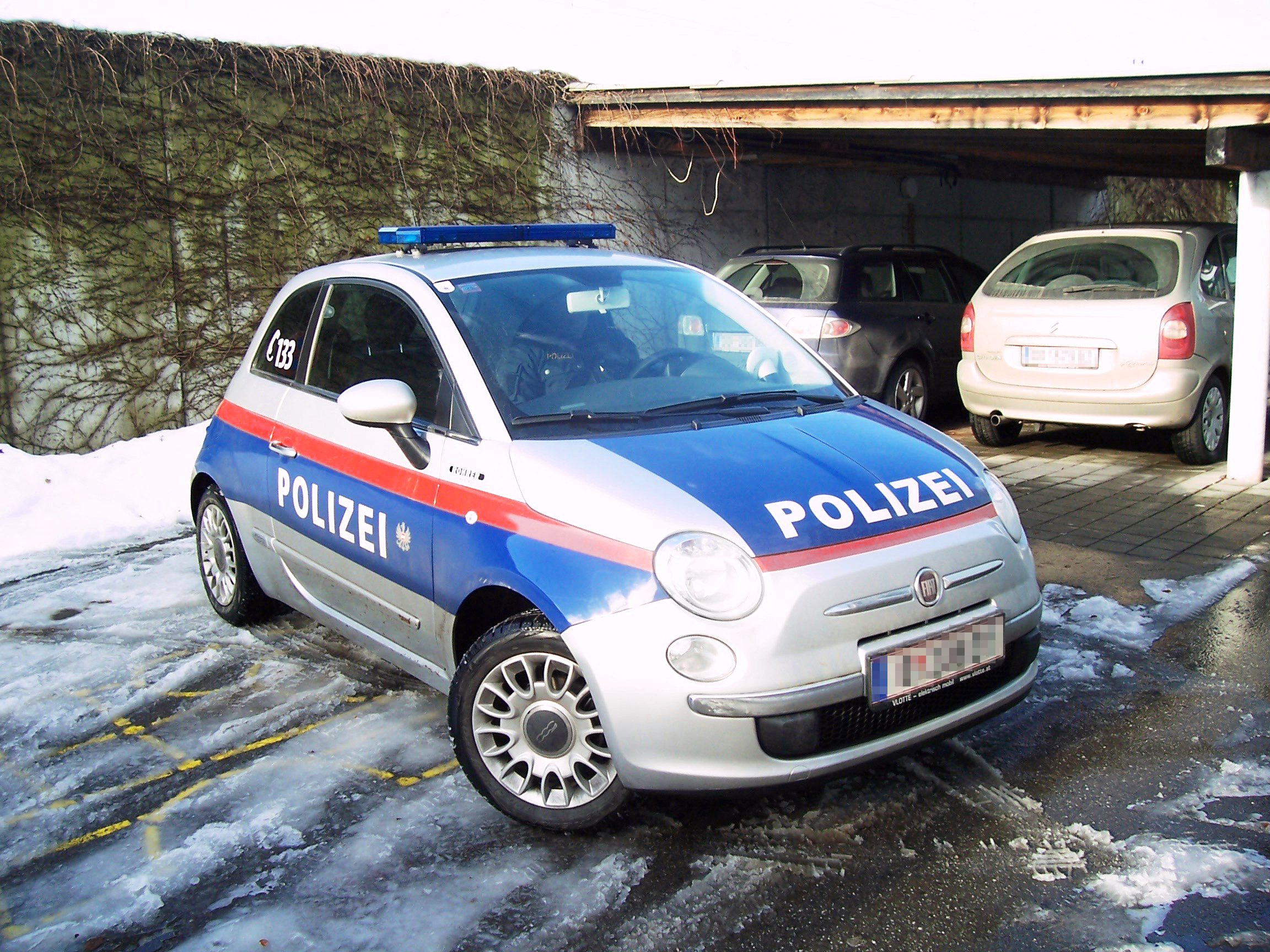 A Fiat 500 as a police car of the Austrian Federal Police.